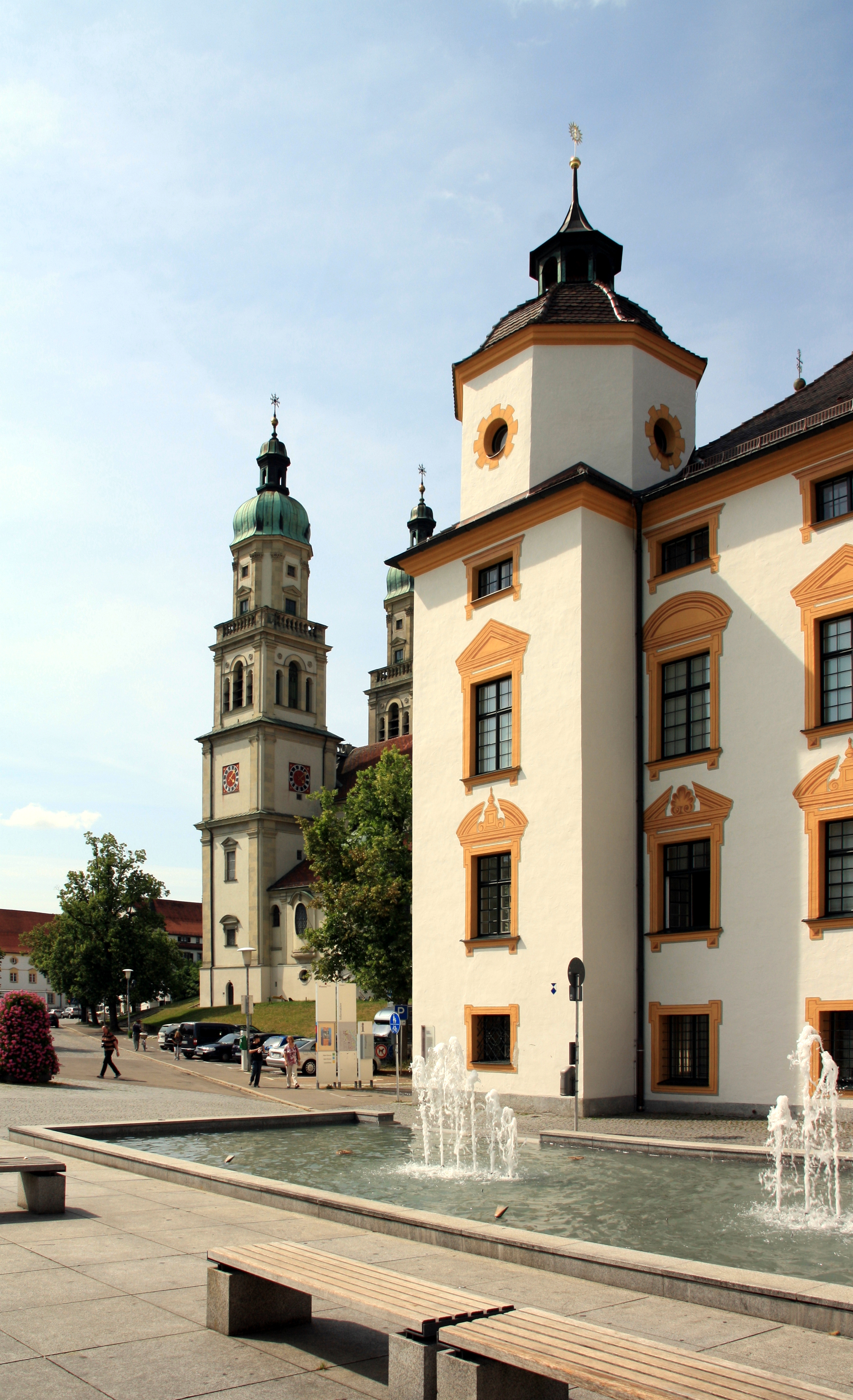 Castle "Residenz" and churche St. Lorenz in Kempten